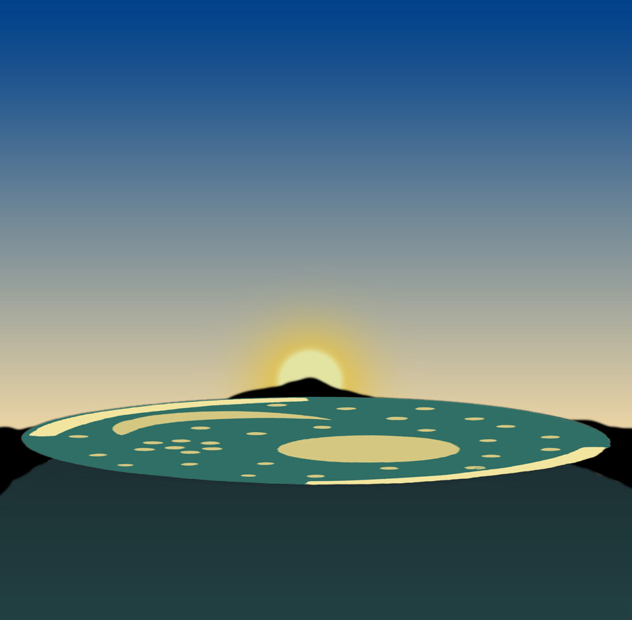 Nebra skydisc, position of the arcs at evening of summer solstice.